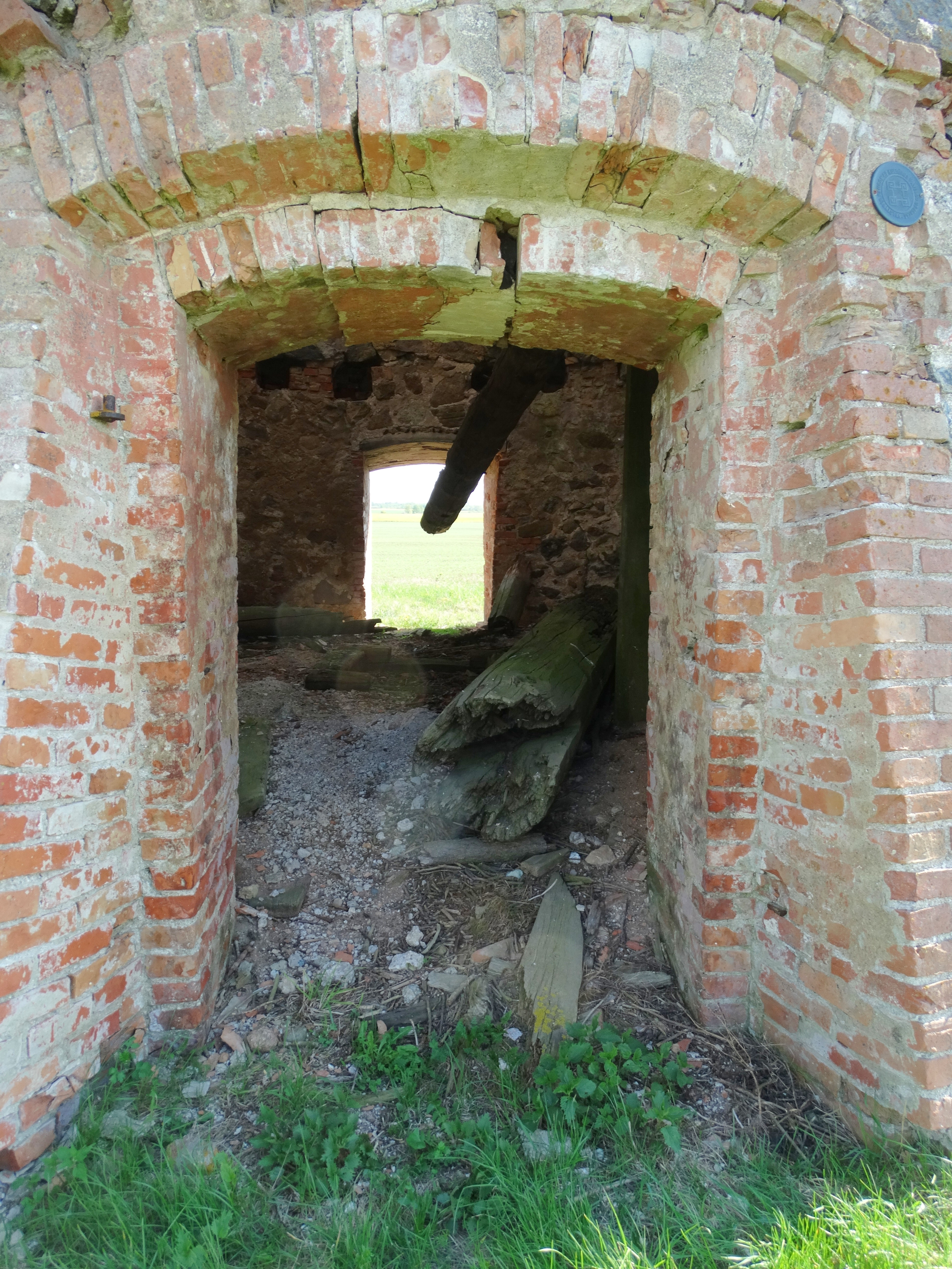 Janelioniai, windmill, Pakruojis district, Lithuania